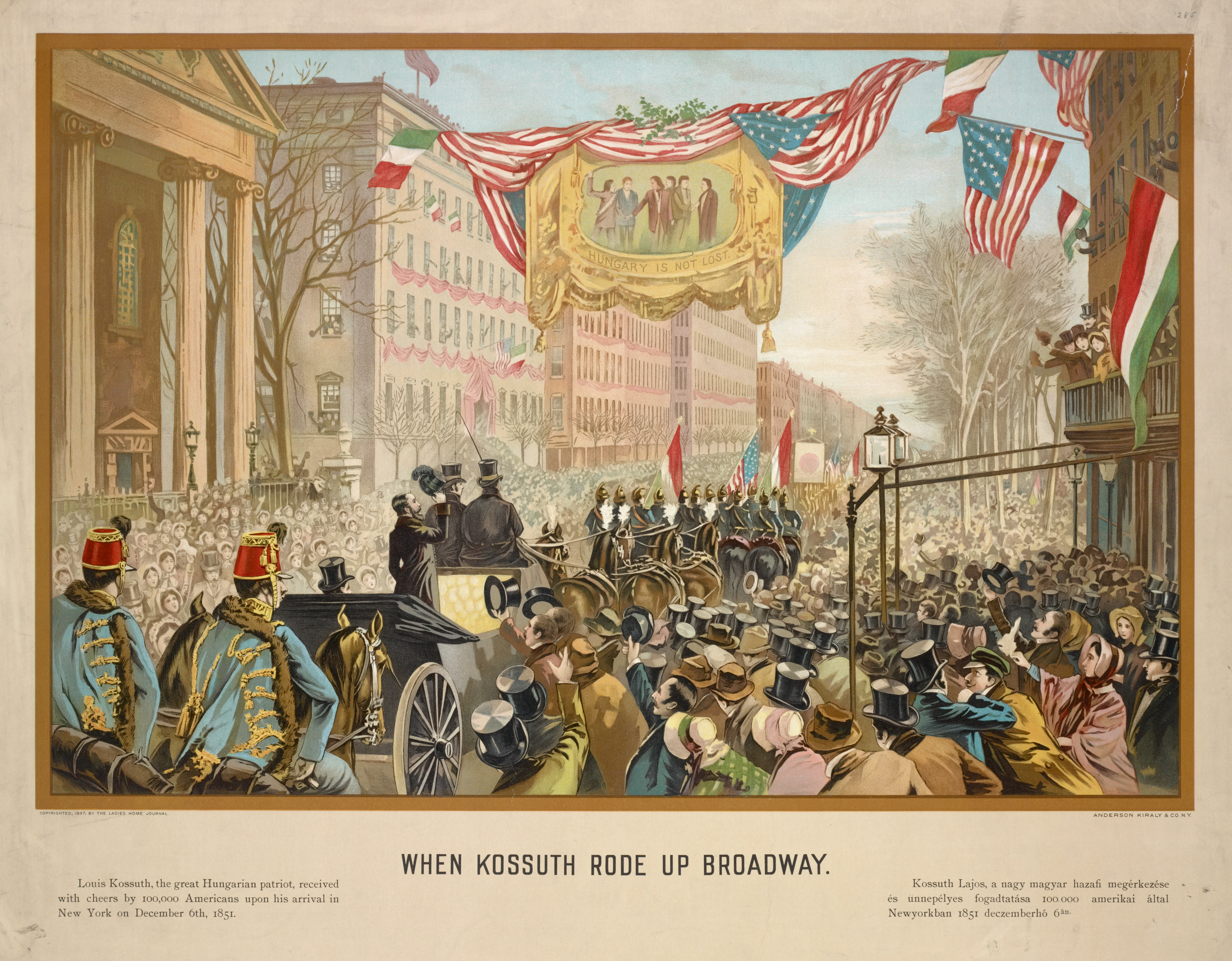 Citation/Reference: Eno 285++